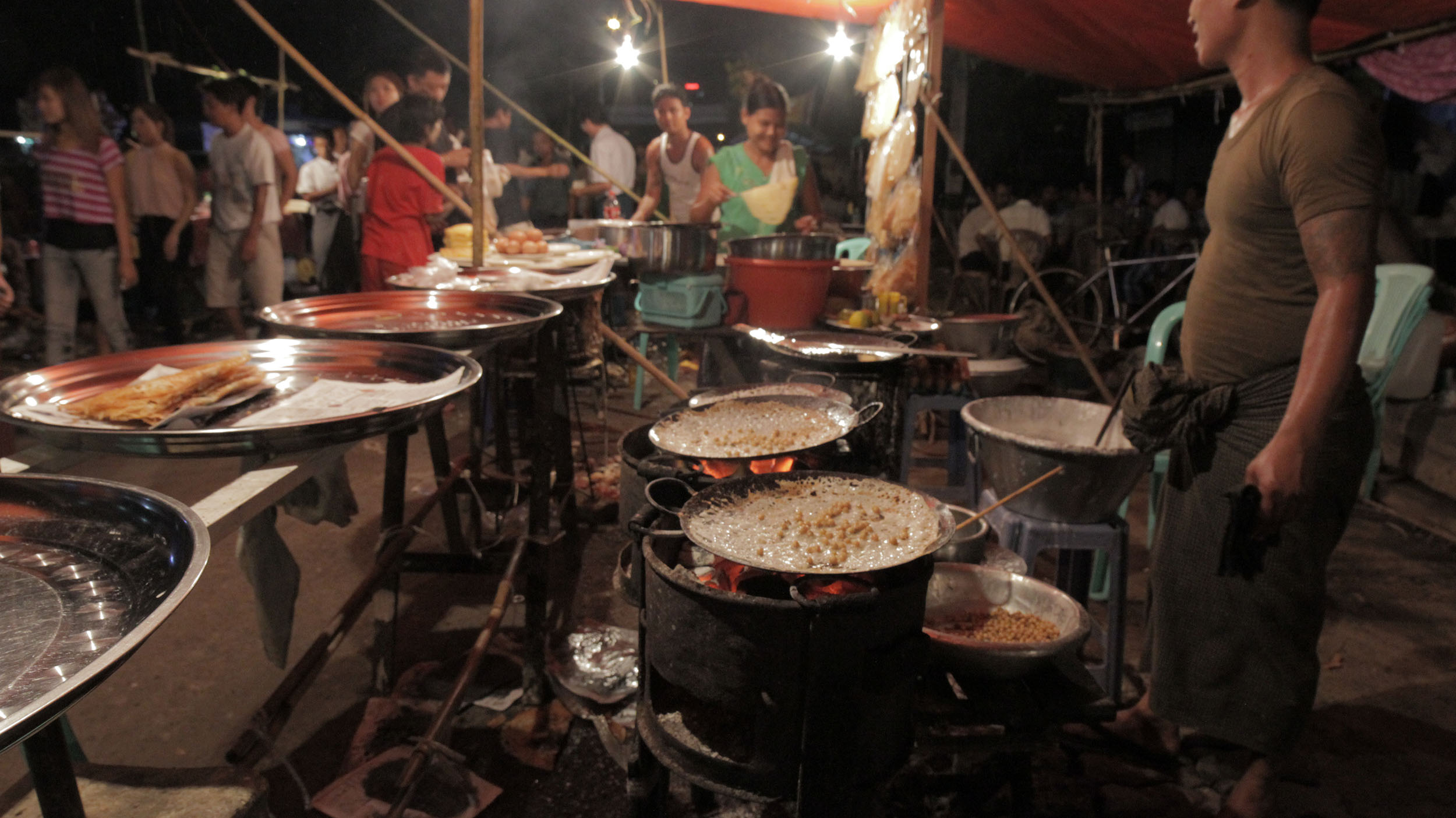 Myanmar traditional snack being madeမြန်မာဘာသာ: ရေမုန့် လုပ်နေပုံ